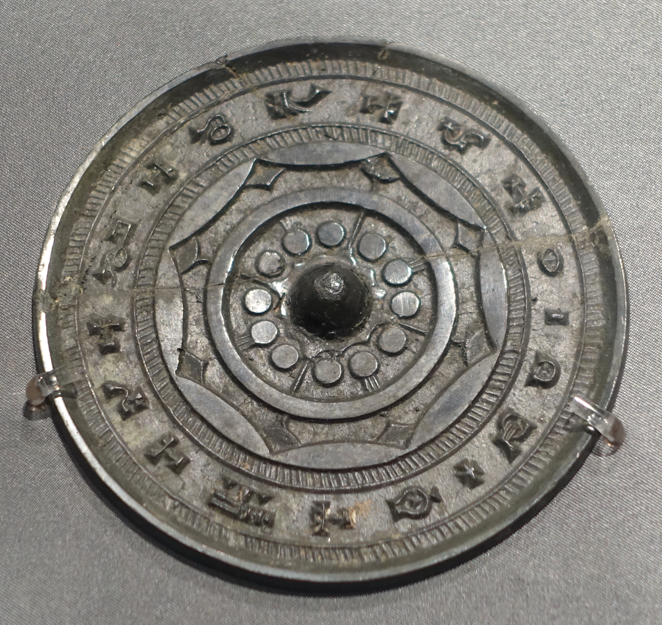 Exhibit in the Hong Kong Museum of History, Hong Kong. This artwork is old enough so that it is in the public domain.